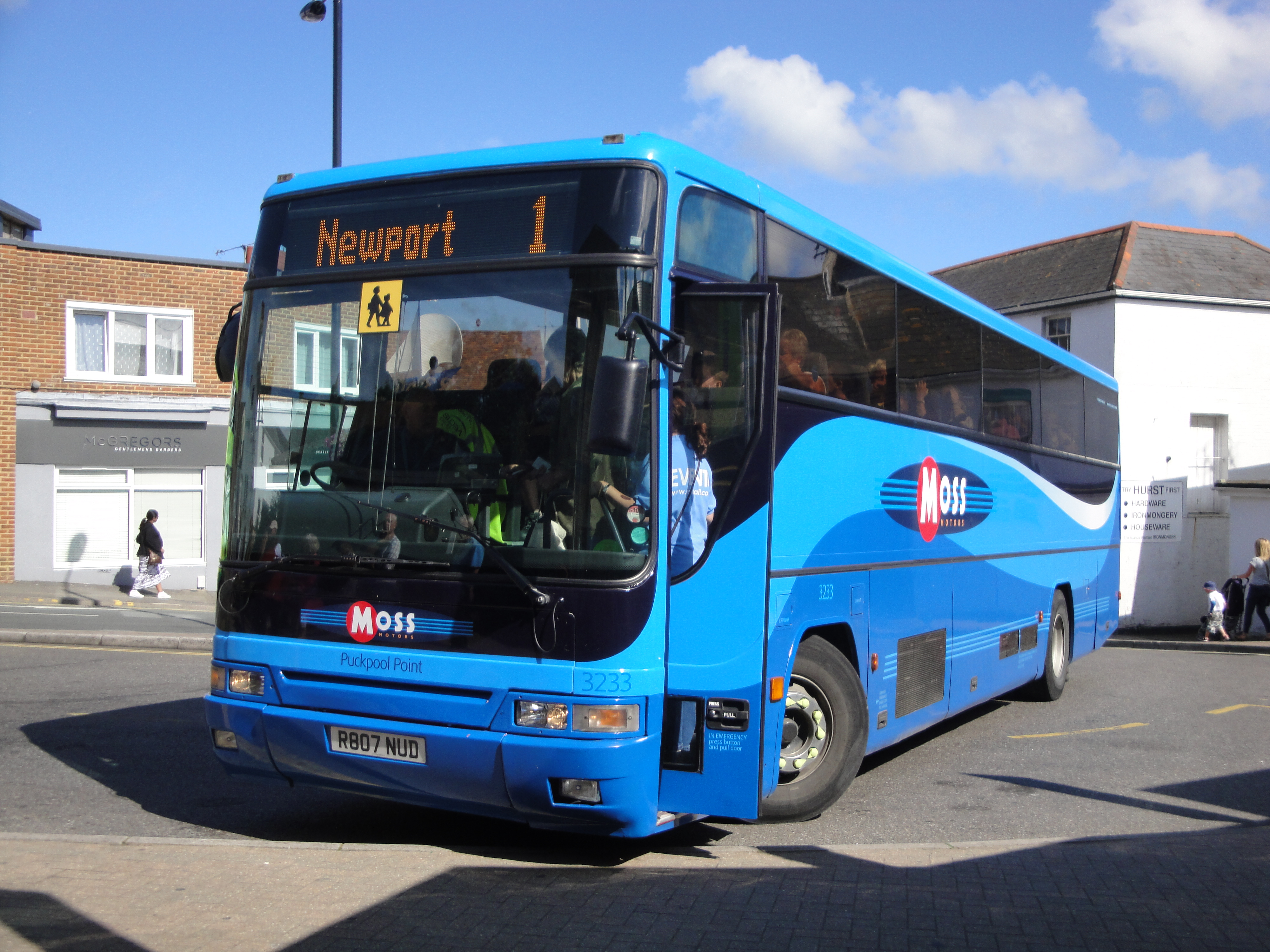 Southern Vectis 3233 Puckpool Point (R807 NUD), a a Volvo B10M-62/Plaxton Premiere, at the Co-op, Cowes, Isle of Wight on route 1. It was Cowes Week at the time, and so additional buses, such as this one were being used on route 1 to cope with higher demand.